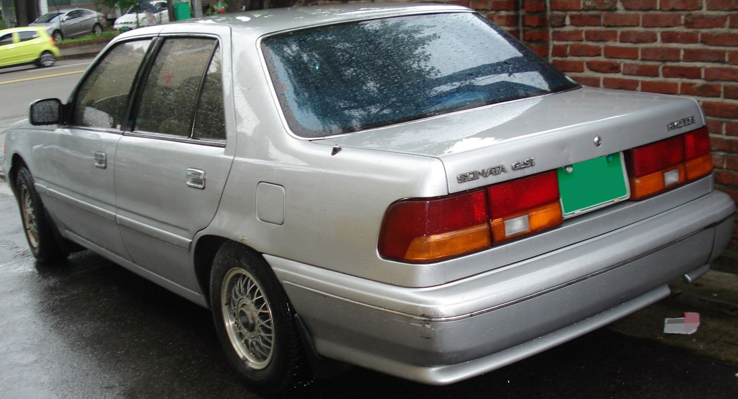 Hyundai New Sonata